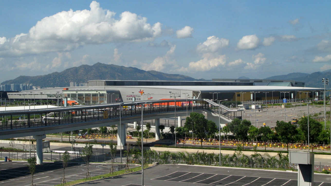 香港亞洲國際博覽館 HK Asia World Expo